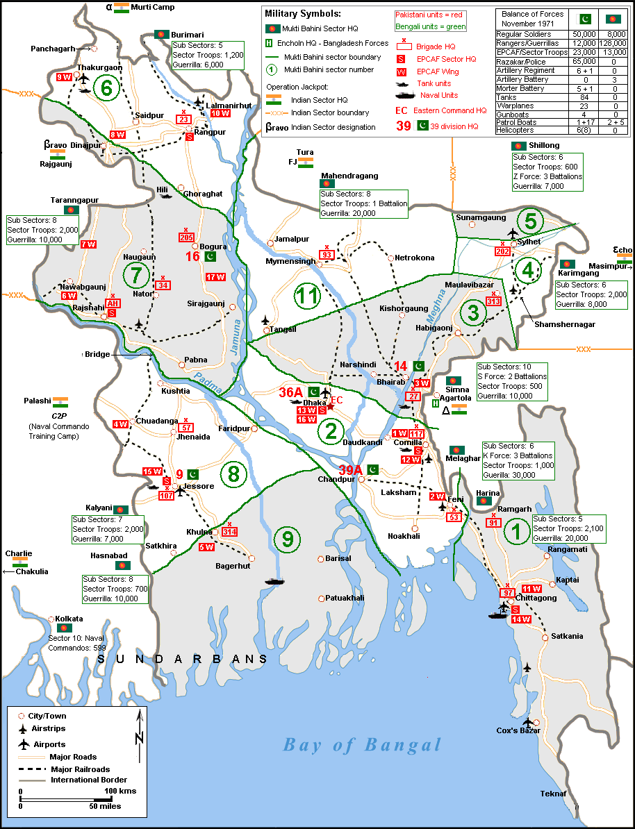 Information on Operation Jackpot